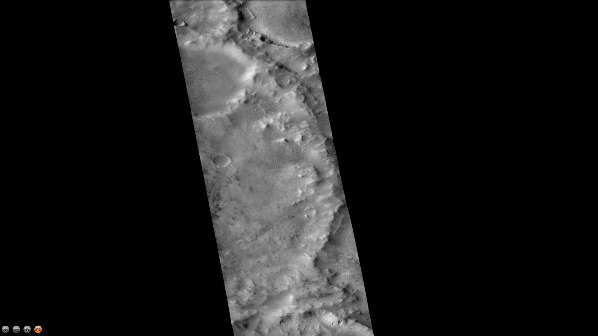 East side of Very Crater, as seen by CTX